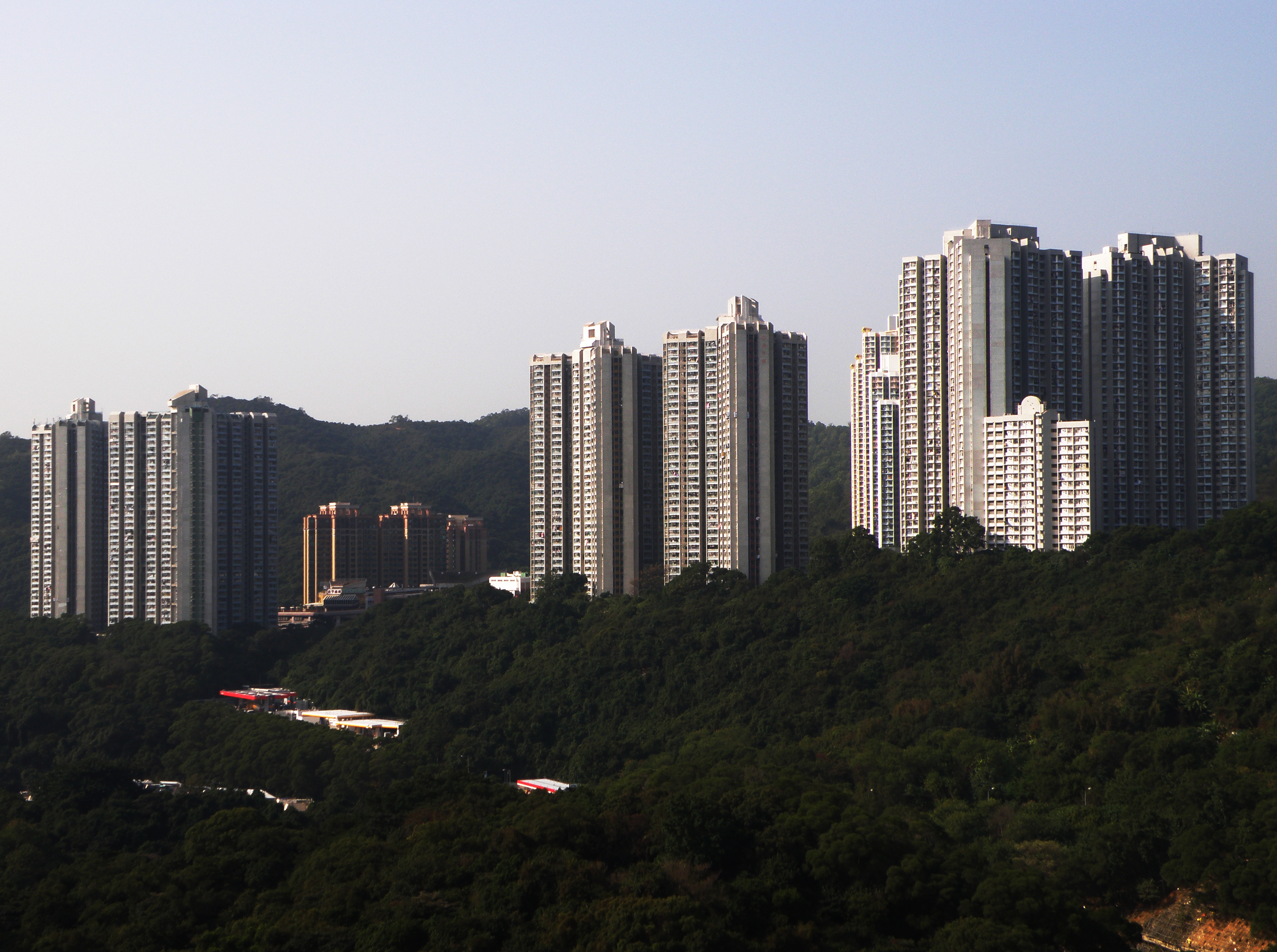 Cheung Hang Estate in Tsing Yi, Hong Kong.